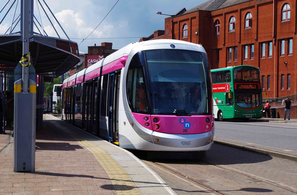 Midland Metro tram no. 20 on display at St. Georges, Bilston Street, Wolverhampton On display for a few hours at St. Georges stop on Saturday 14th June 2014 was this new Midland Metro tram no. 20 made by the Spanish firm CAF. It is one of a new fleet (numbered 17 to 36) currently in course of delivery. The first four are expected to enter public service around August Bank Holiday 2014. There is an option for up to a further five trams and maybe some or all of these will be needed for a proposed tramway extension to Wolverhampton's railway station. The bus on the right is National Express West Midlands no. 5516 on Service 1 to Tettenhall Wood via Tettenhall Road.